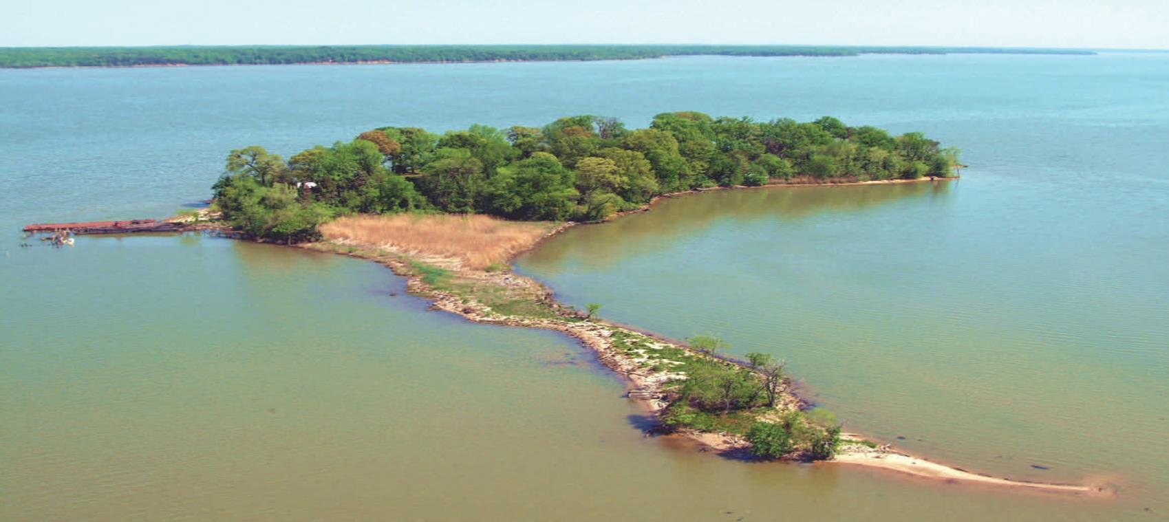 Chopawamsic Island Aerial View